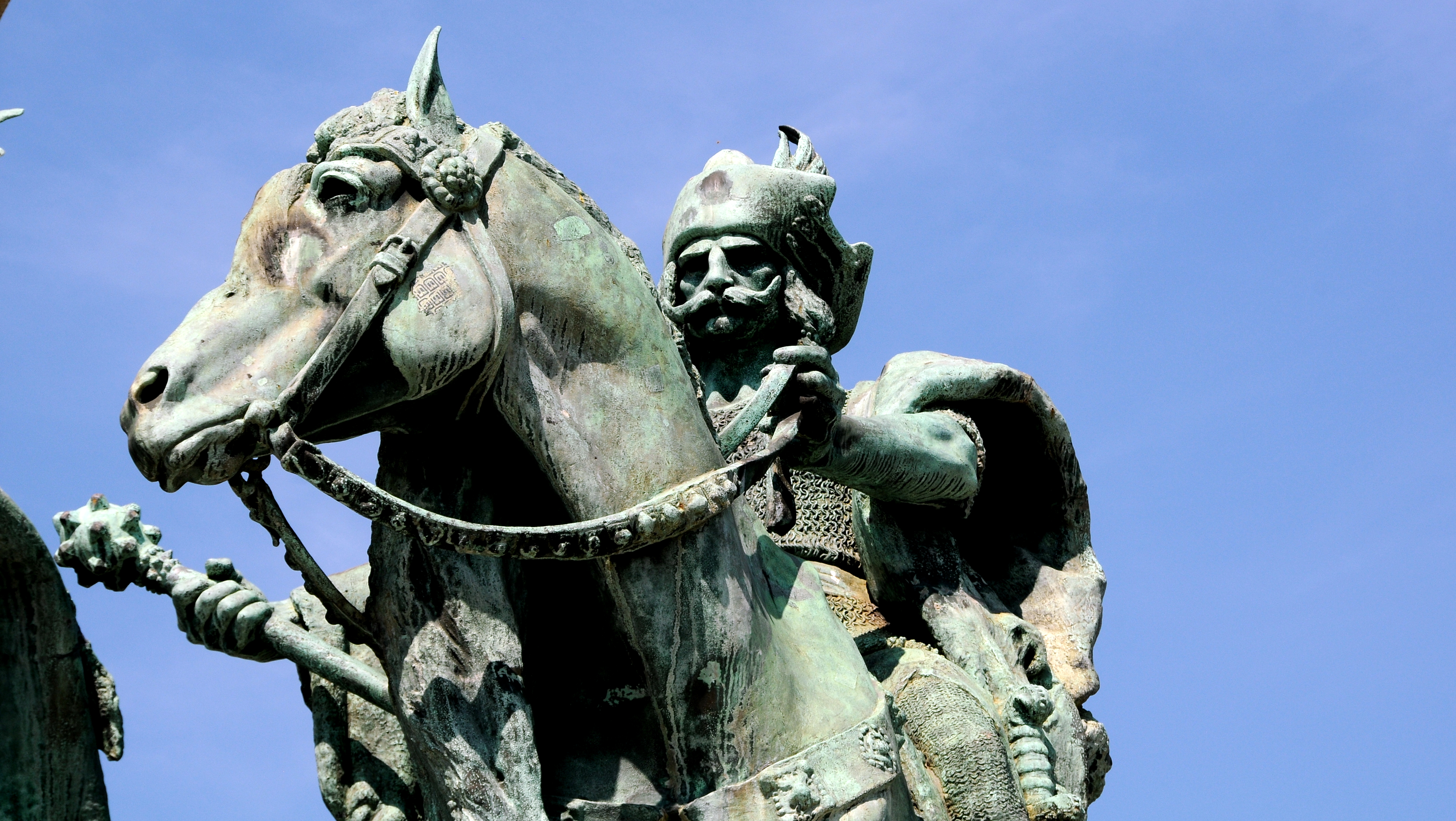 Tas, a Magyar chieftain Close up from one of the seven statues of the Seven chieftains of the Magyars. Statues placed in Budapest (Hungary), on the 'Hosok tere' square, also know as the 'Heroes' square'